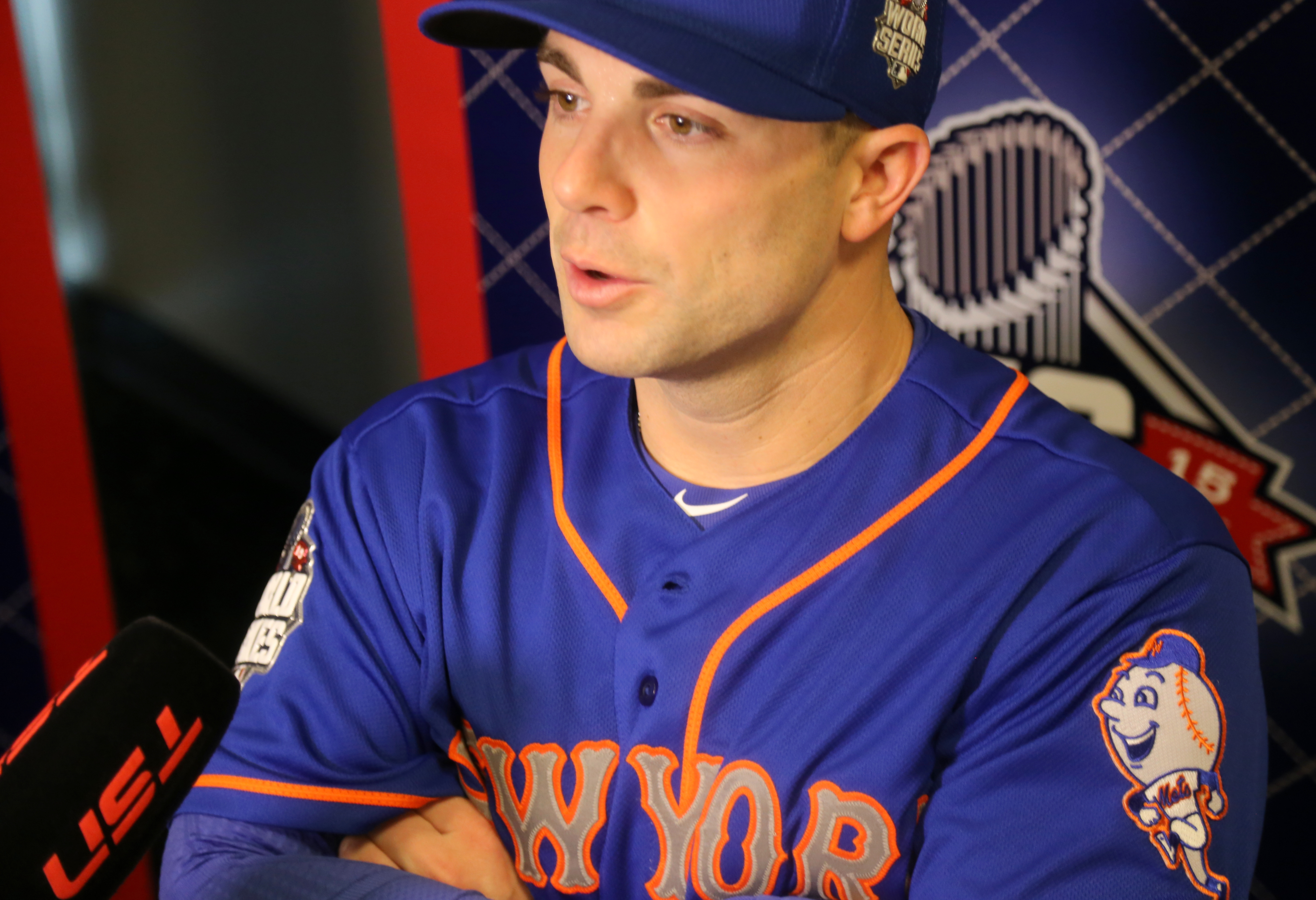 David Wright talks to reporters on #WSMediaDay.